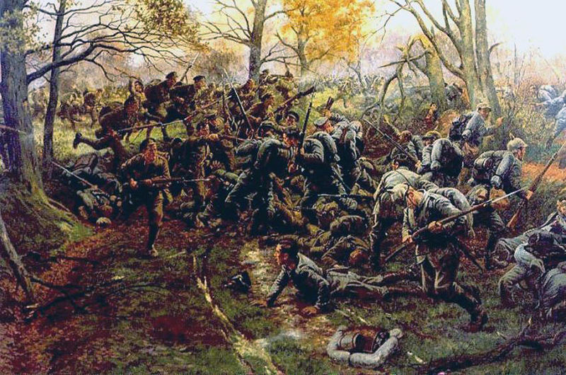 2nd Oxfordshire and Buckinghamshire Light Infantry fight the Prussian Guard at the Battle of Nonne Bosschen, 11 November 1914.